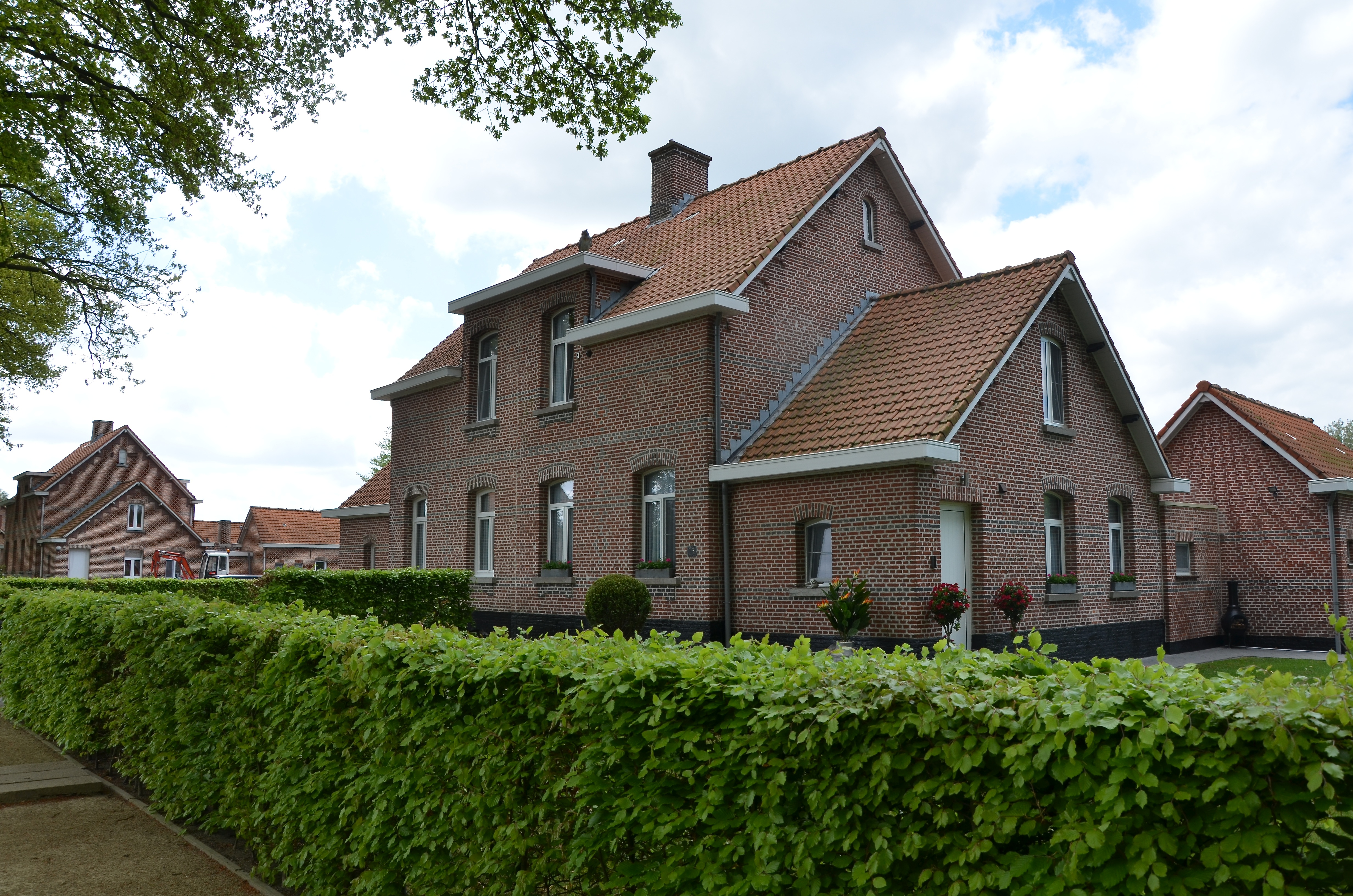 Guardhouse, Kweekstraat 13-15, Merksplas